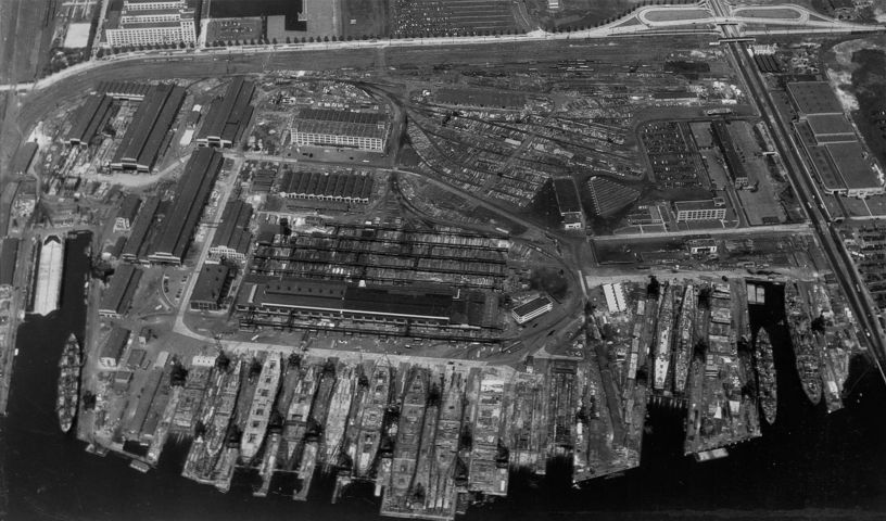 Aerial view of the Federal Shipbuilding & Dry Dock Company, Kearny, New Jersey (USA), looking west, 22 May 1945.